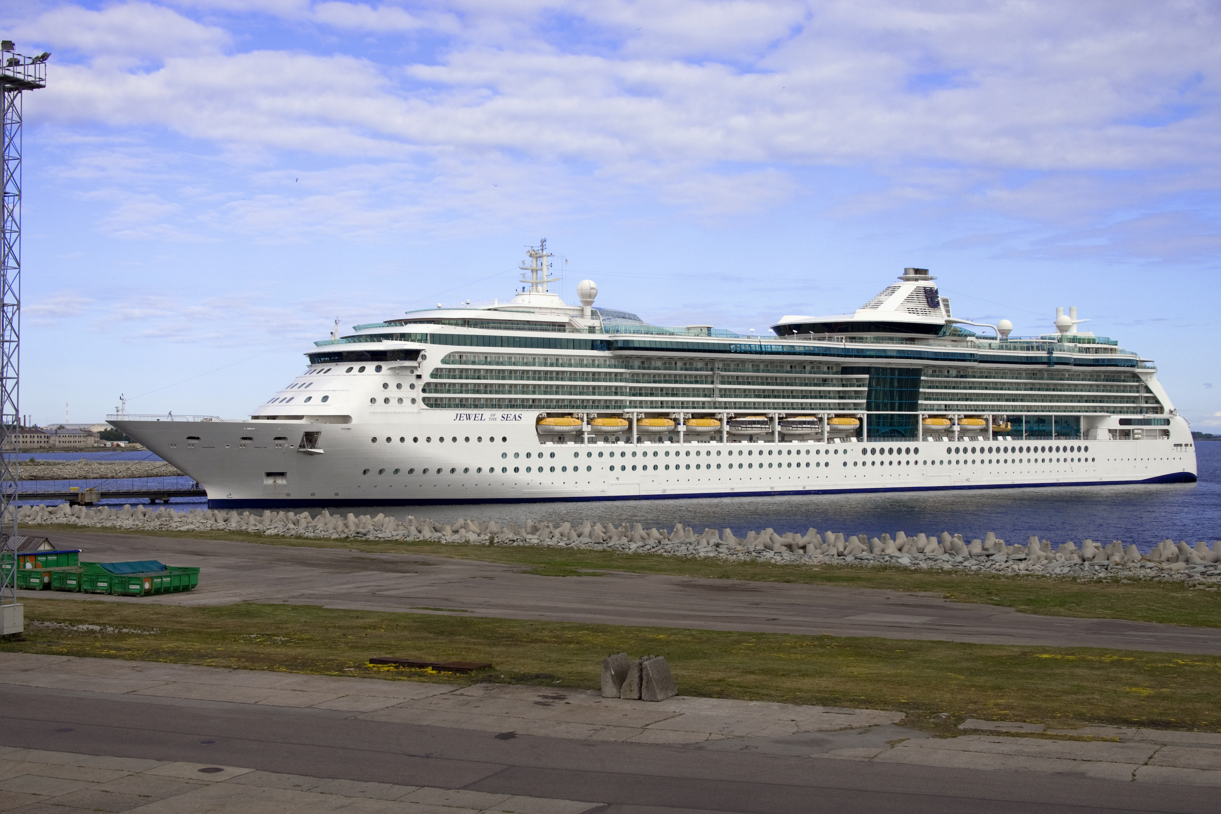 Jewel of the Seas at Tallinn harbor, 2 July 2010